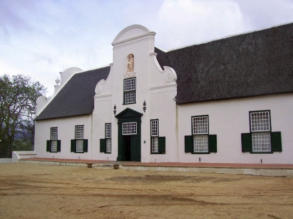 Groot Constantia Estate, Cape Town, South Africa.